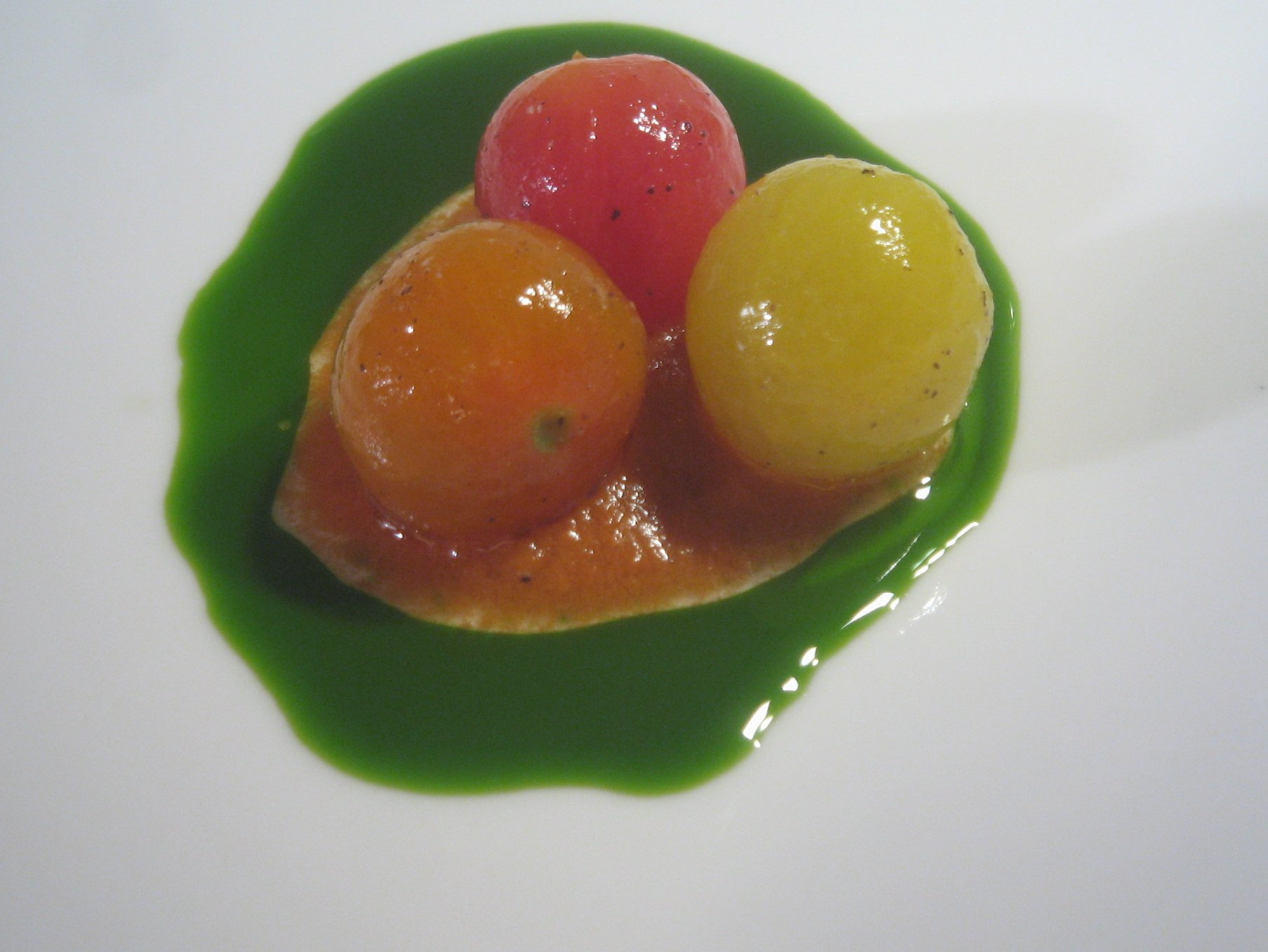 Tomatoes, basil oil, and tomato coulis